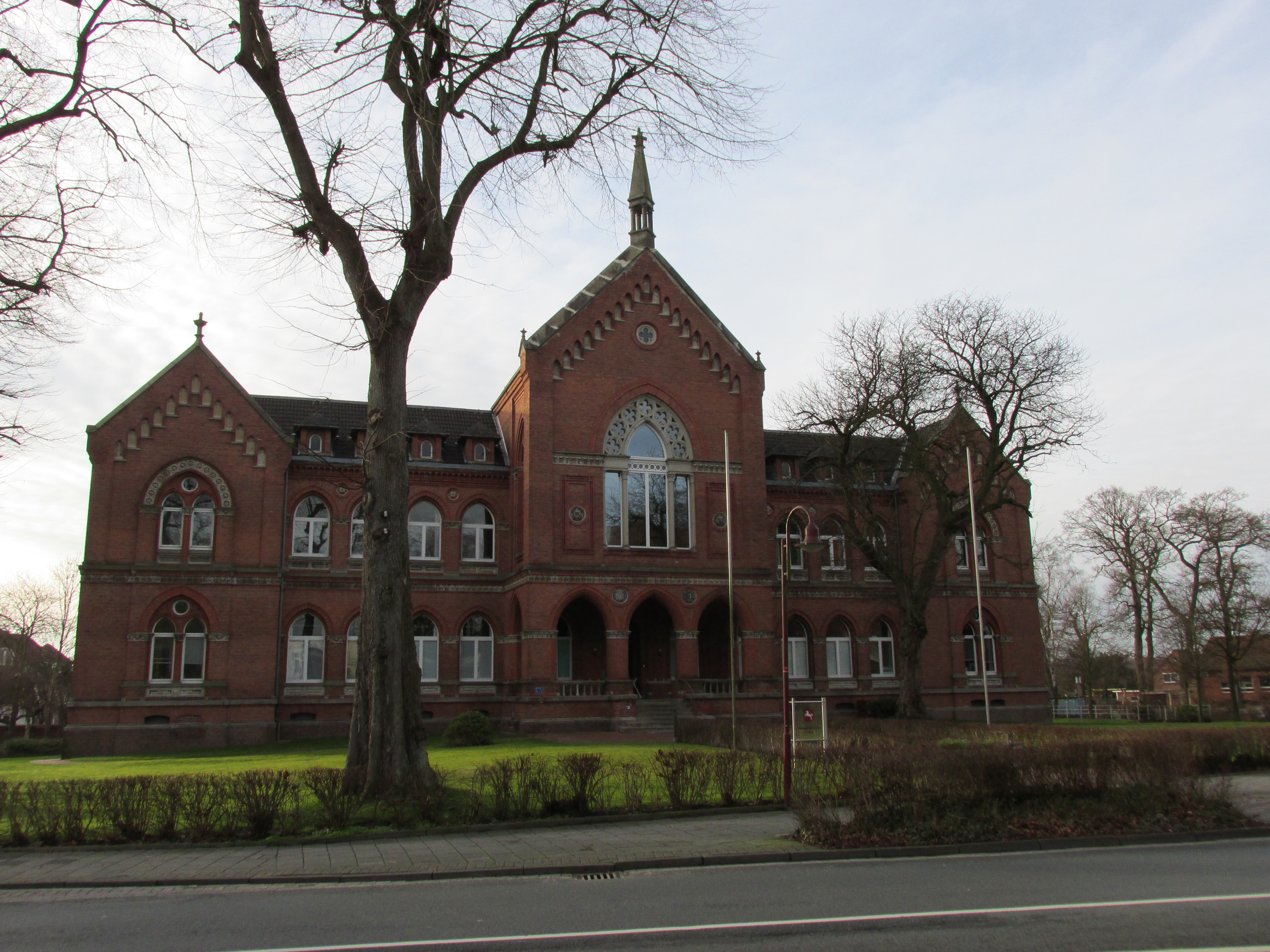 Courthouse Amtsgericht Varel, Varel, Germany check usage Address Schloßplatz 7 26316 Varel Germany Date18 January 2014SourceOwn work. (→ weitere 1,936 Bilder von mir in der Galerie)AuthorStefan FlöperPermission (Reusing this file) cc-by-sa-3.0, gfdl 1.2+